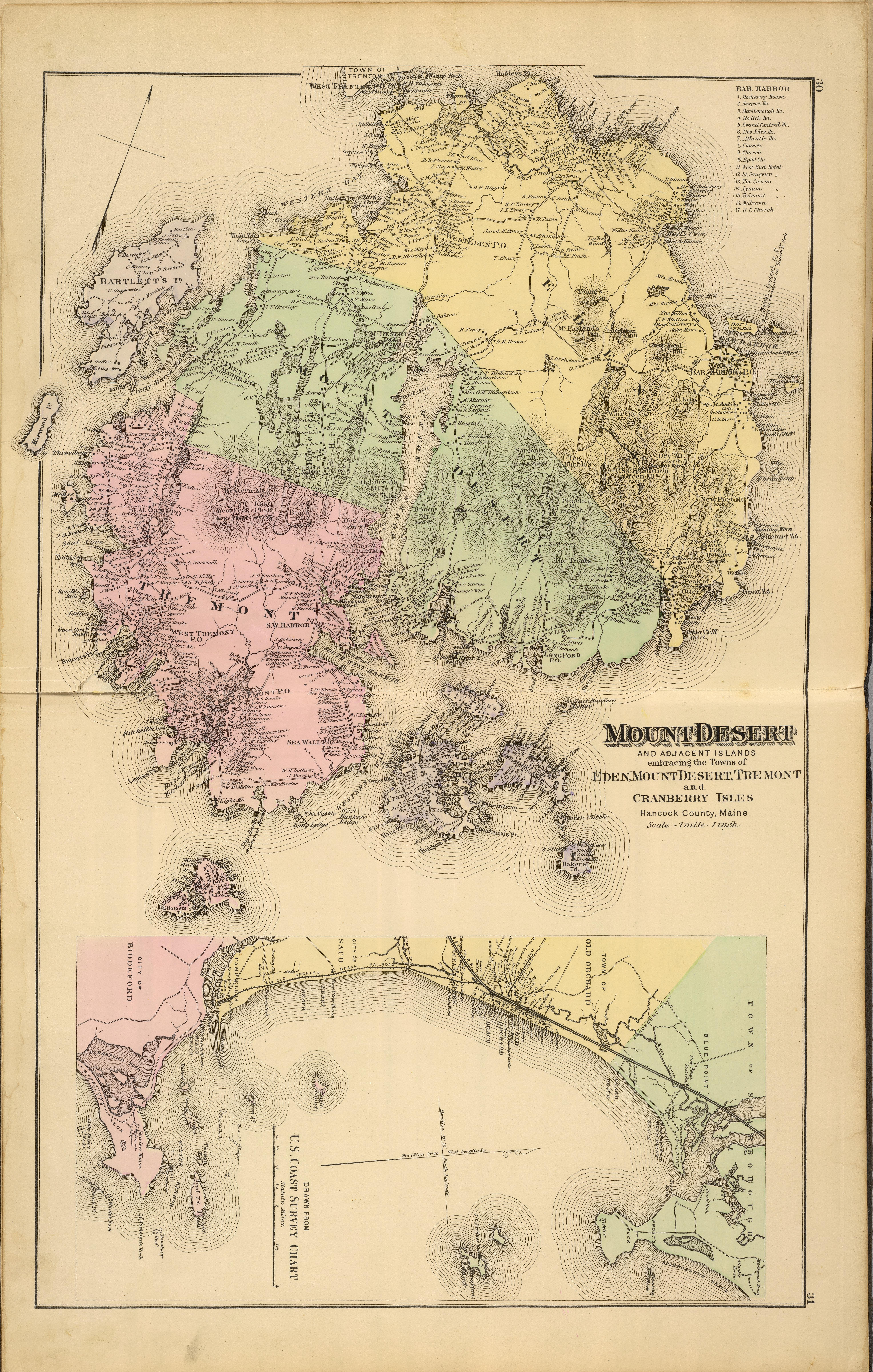 Author Colby, George N. Author George N. Colby & Co. Date 1885 Short Title Mount Desert, adjacent islands. Publisher George N. Colby Publisher Location Houlton, Maine Type Atlas Map Obj Height cm 62 Obj Width cm 40 Scale 1 63,360 Note Hand colored lithographed map with inset. Relief shown by hachures and spot heights. Shows roads, landowners, etc. State/Province Maine County Hancock County (Me.) County York County (Me.) Region Mount Desert Island (Me.) Full Title Mount Desert and adjacent islands, embracing the towns of Eden, Mount Desert, Tremont and Cranberry Isles, Hancock County, Maine. (with Map of parts of towns of Scarborough and Old Orchard and the cities of Saco and Biddeford) drawn from U.S. Coast Survey chart. (1885) List No 1537.005 Page No 30-31 Series No 9 Publication Author Colby, George N. Publication Author George N. Colby & Co. Pub Date 1885 Pub Title Atlas of the state of Maine. Including statistics and descriptions of its history, educational system, geology, rail roads, natural resources, summer resorts and manufacturing interests. Compiled and drawn from official plans and actual surveys and published by George N. Colby. Houlton, Maine. 1885. Assisted by H.E. Halfpenny, C.E. & J.H. Stuart, C.E. Copyright secured by Geo. N. Colby & Co. 1884. Eng. by Wm. Bracher, 27 So. Sixth St. Phila. Printed by F. Bourquin, 31 So. Sixth St. Phila. Pub Reference P1773, U.S. Atlases L1501. Pub Note See note field above. Pub List No 1537.000 Pub Type State Atlas Pub Maps 49 Pub Height cm 45 Pub Width cm 37 Image No 1537005 Download 1 Full Image Download in MrSID Format Download 2 GeoViewer for JP2 and SID files Authors Colby, George N.; George N. Colby & Co. Collection Rumsey Collection